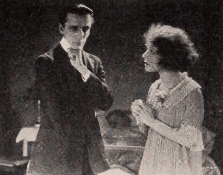 Still from the American drama film A Doll's House (1922) with Alla Nazimova, on page 84 of the April 8, 1922 Exhibitors Herald.